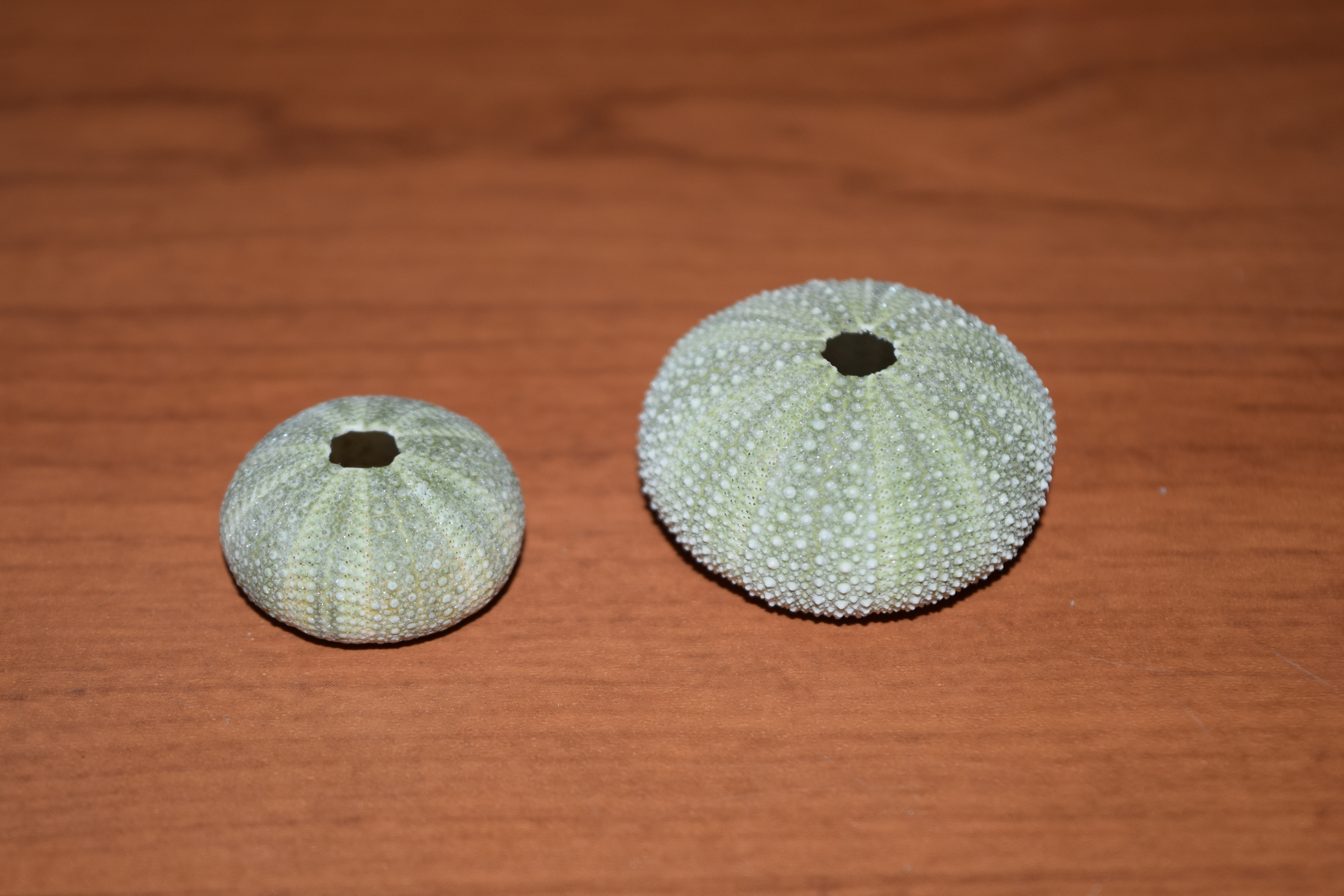 Hemicentrotus pulcherrimus 'test's, taken off the beach of Suma (near Suma Station) in Dec 23, 2014.